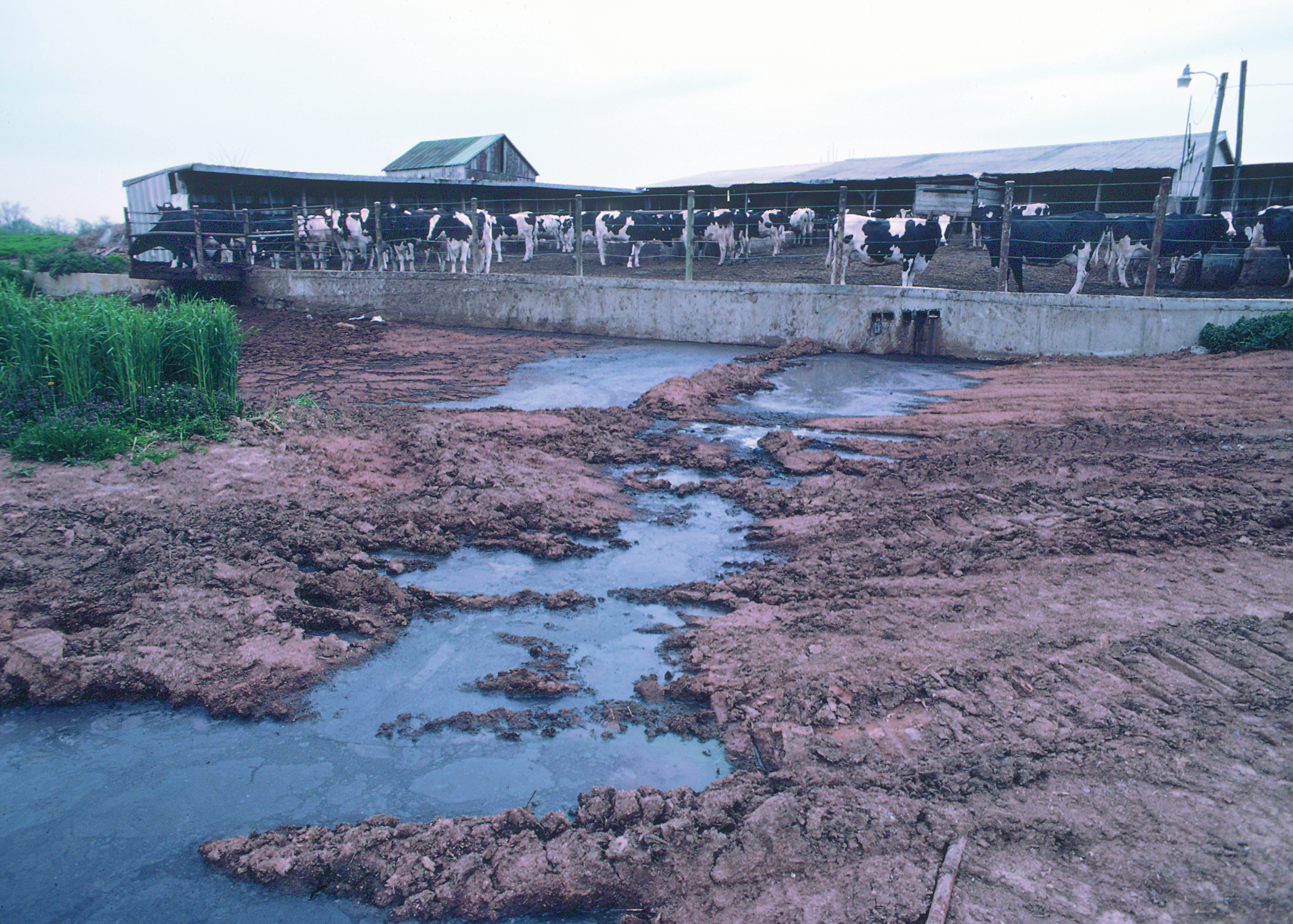 Runoff from this Maryland livestock yard may enter a nearby stream and degrade the water quality.